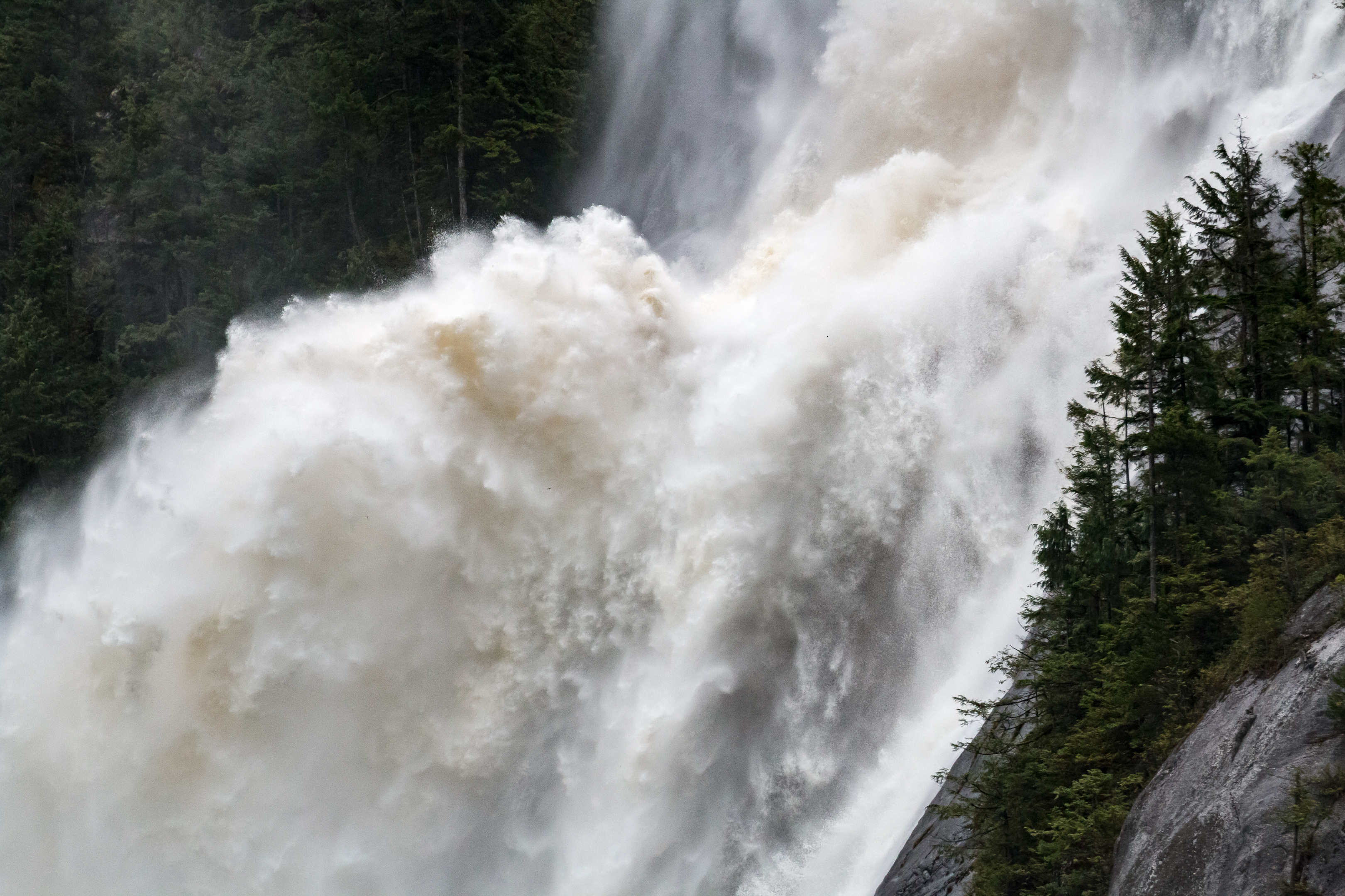 The Shannon Falls after heavy rain fall